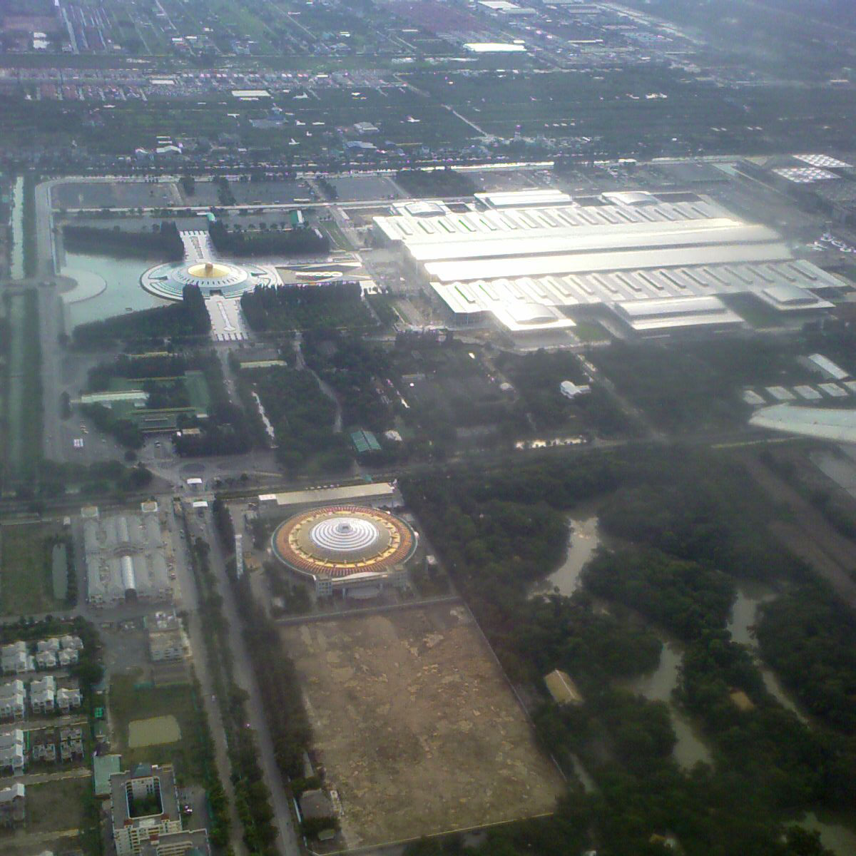 Aerial view of the Wat Phra Dhammakaya temple complex, May 2010